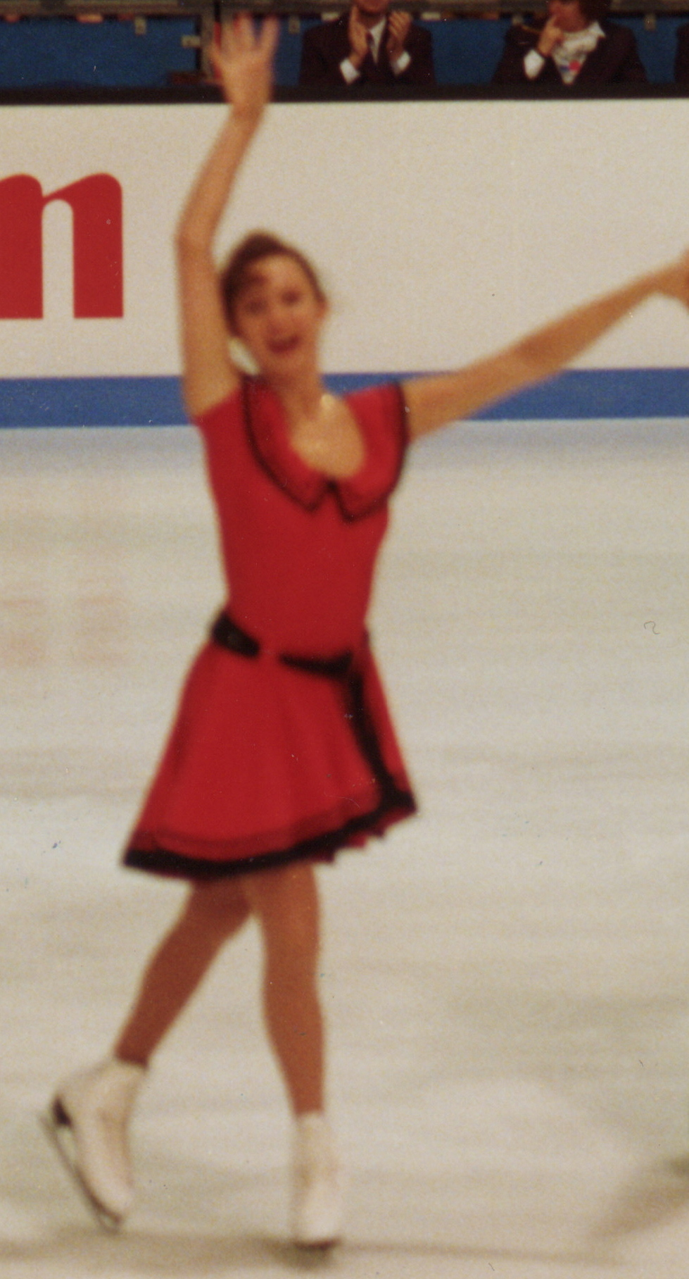 Oksana Grishuk and Evgeny Platov at the European Championships 1994 in Copenhagen